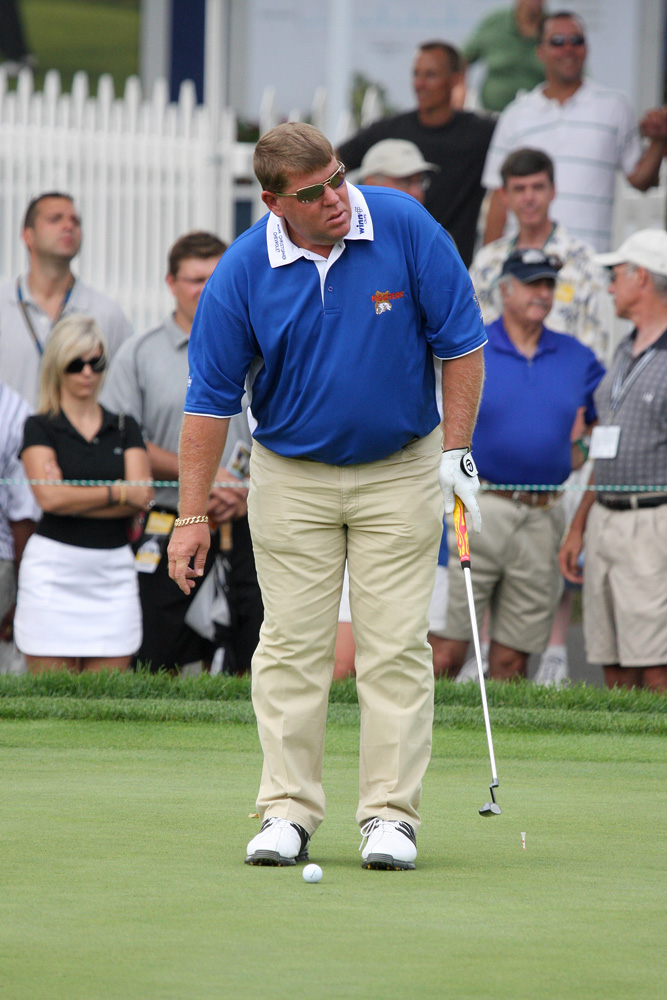 John Daly, professional golfer